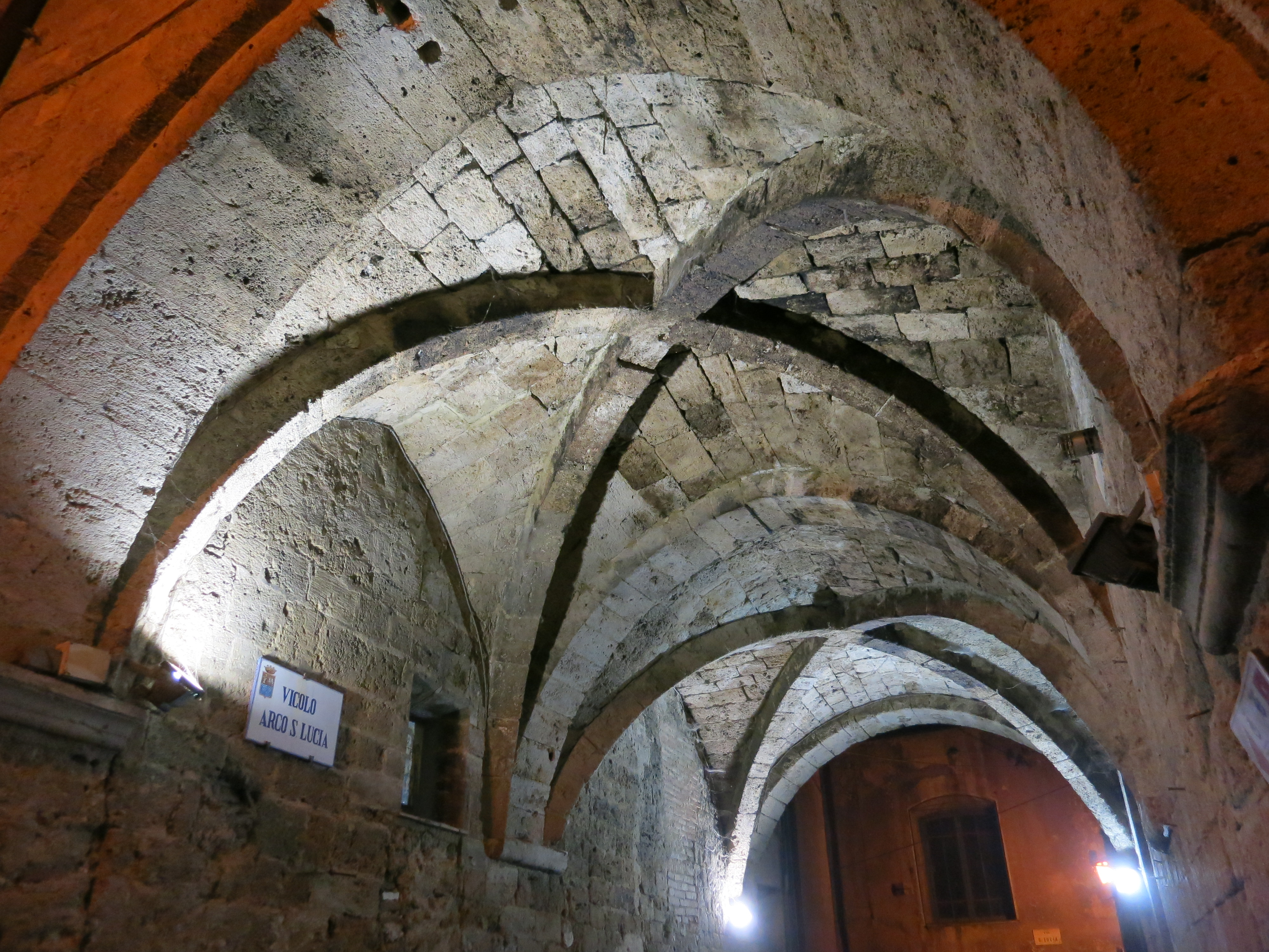 Saint Lucy's arch by night - Rieti, Lazio, Italy. 13th century gotic arch made of a double rib vault, which connects via del Porto alley with Saint Lucy's alley.